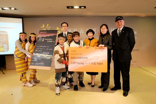 THSRC Smile Program